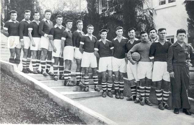 Football team of Stakhanovets Stalino /Ukr.SSR/ (now Shakhtar Donetsk) in Ukraine, 1937.